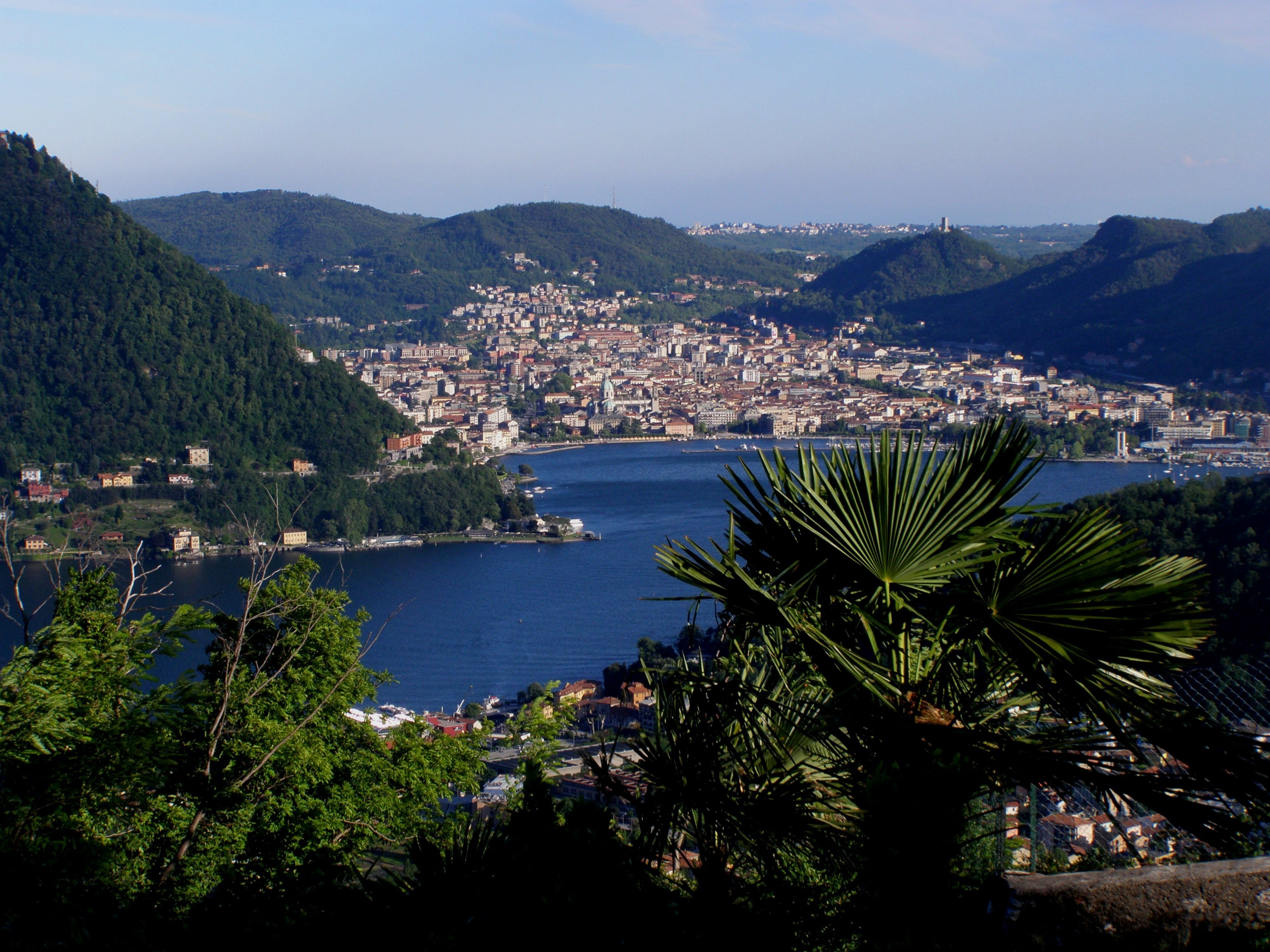 Lake Como: Como city (Italy)